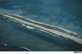 Aerial view of Tern Island (French Frigate Shoals), Northwestern Hawaiian Islands